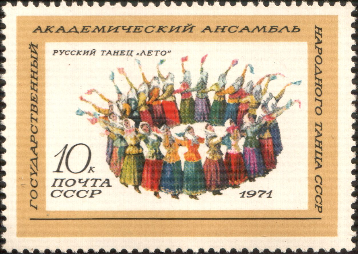 USSR stampː Russian Summer Dance (Women in Circle). Seriesː Ensemble of Folk Dance of Igor Moiseyev (Founded 1937.02.10)